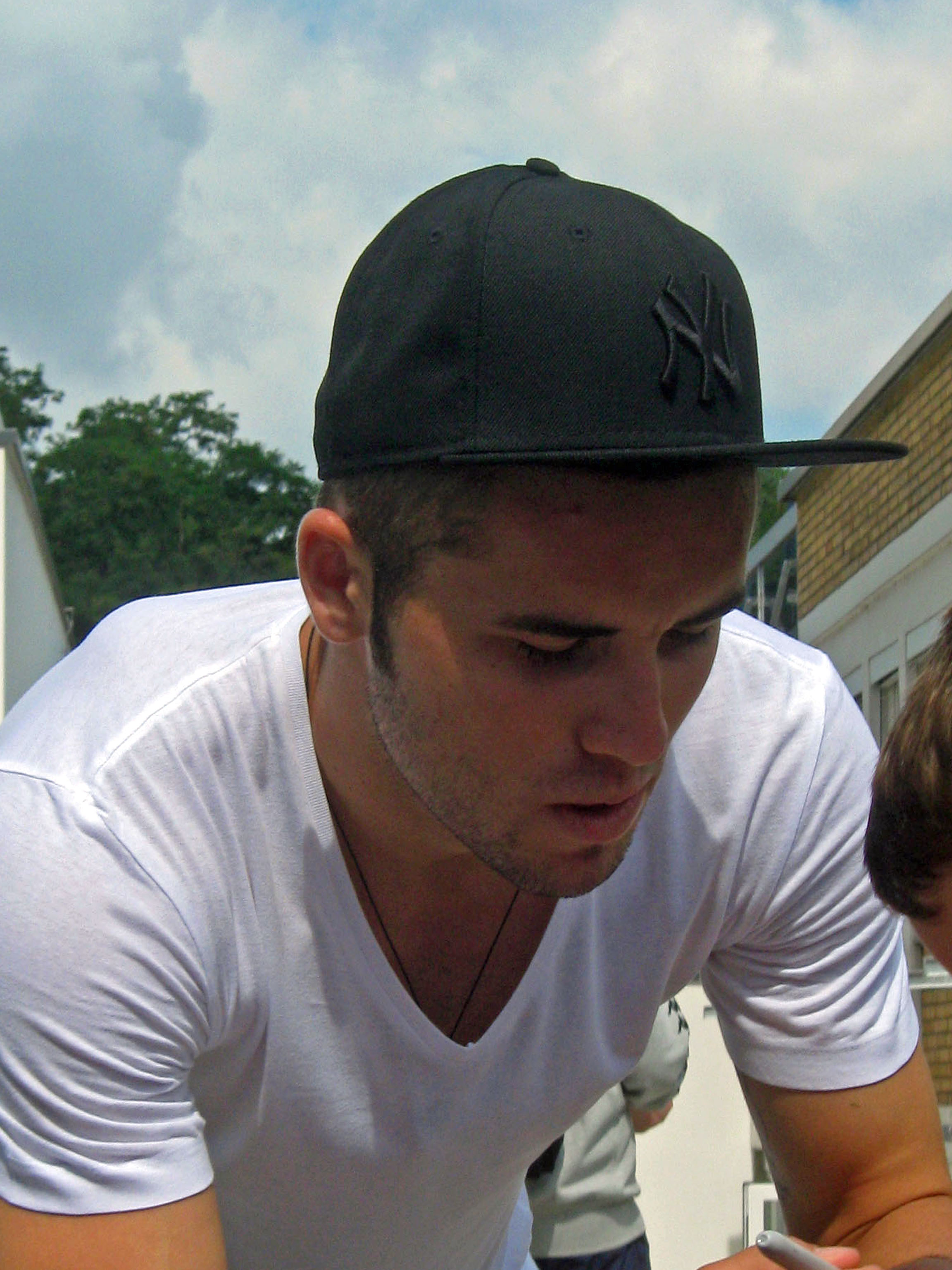 Alexandru Ioniţă